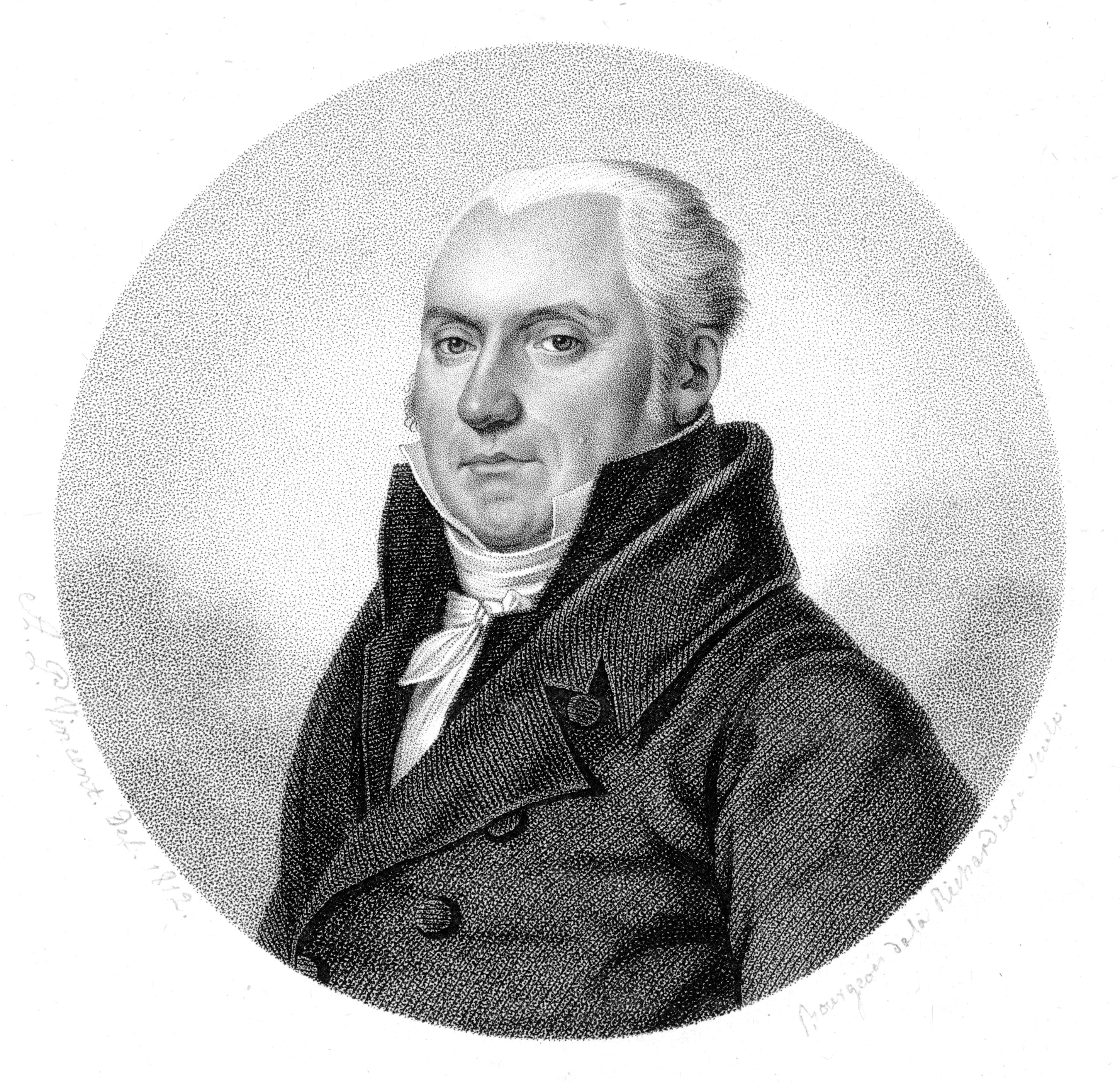 Depicted person: Jean-Jérôme Imbault